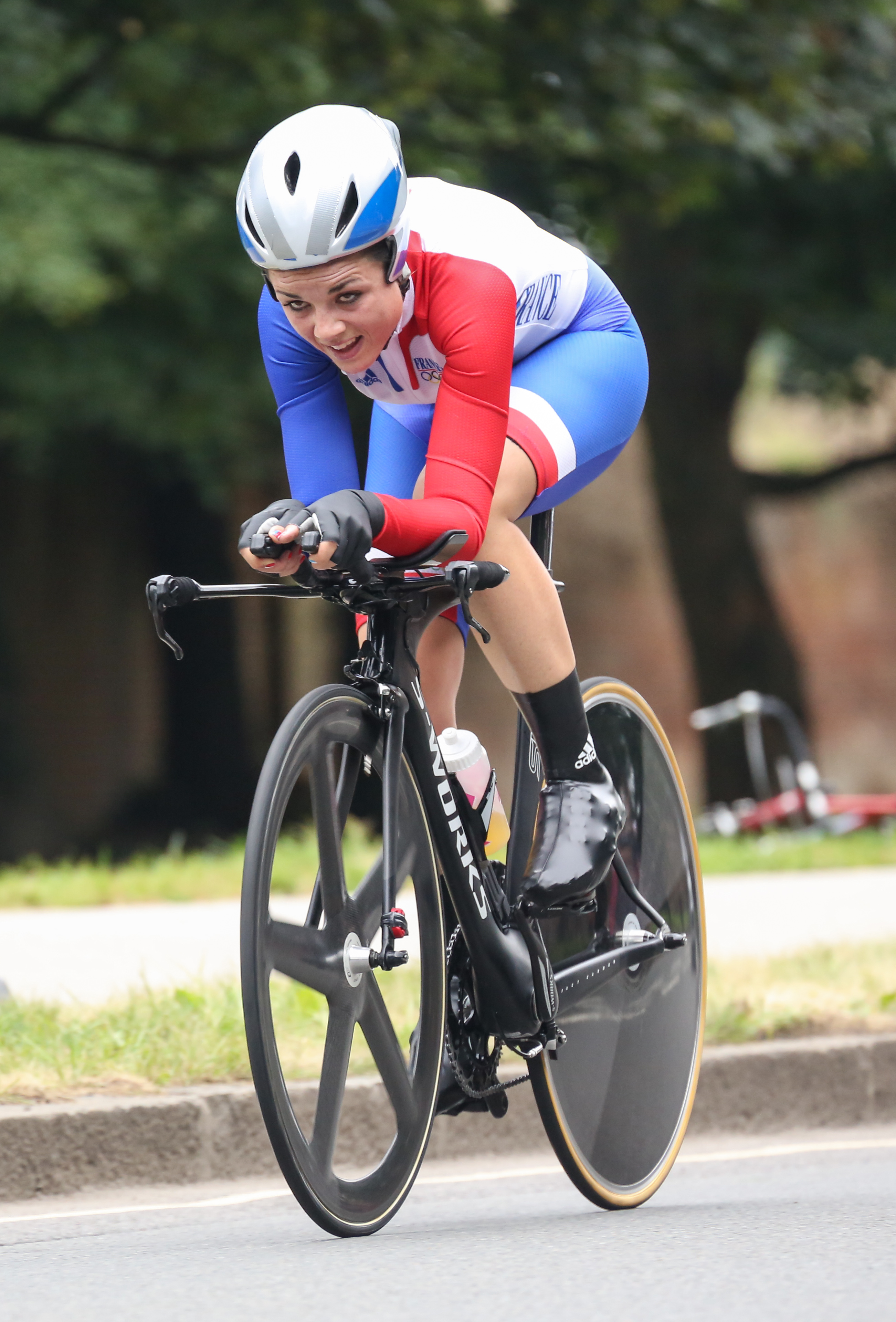 Audrey Cordon competing in the London 2012 Women's Olympic Time Trial.